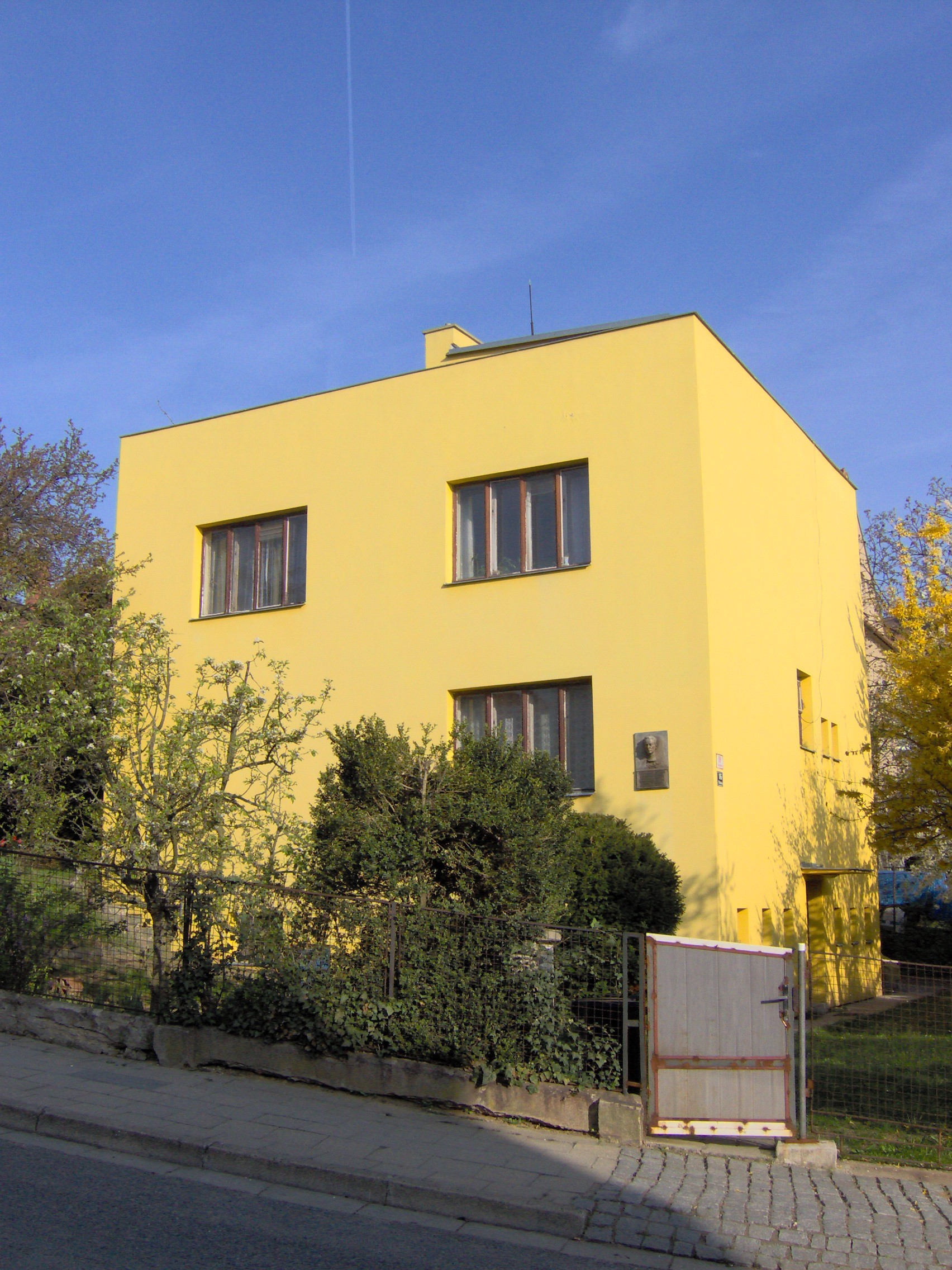 Villa, Brno, Czech Republic